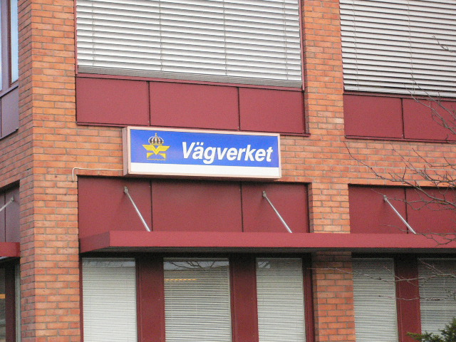 A picture of a Swedish Road Administration sign outside one of their driver's offices. This changed 2010, when trafikverket (Swedish transport agency) took over.